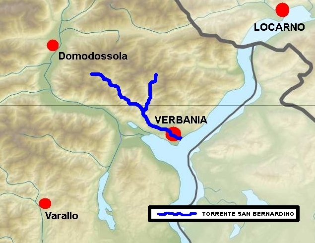 location of the San Berdardino and its main tributaries in within northeast Piedmont (Italy)